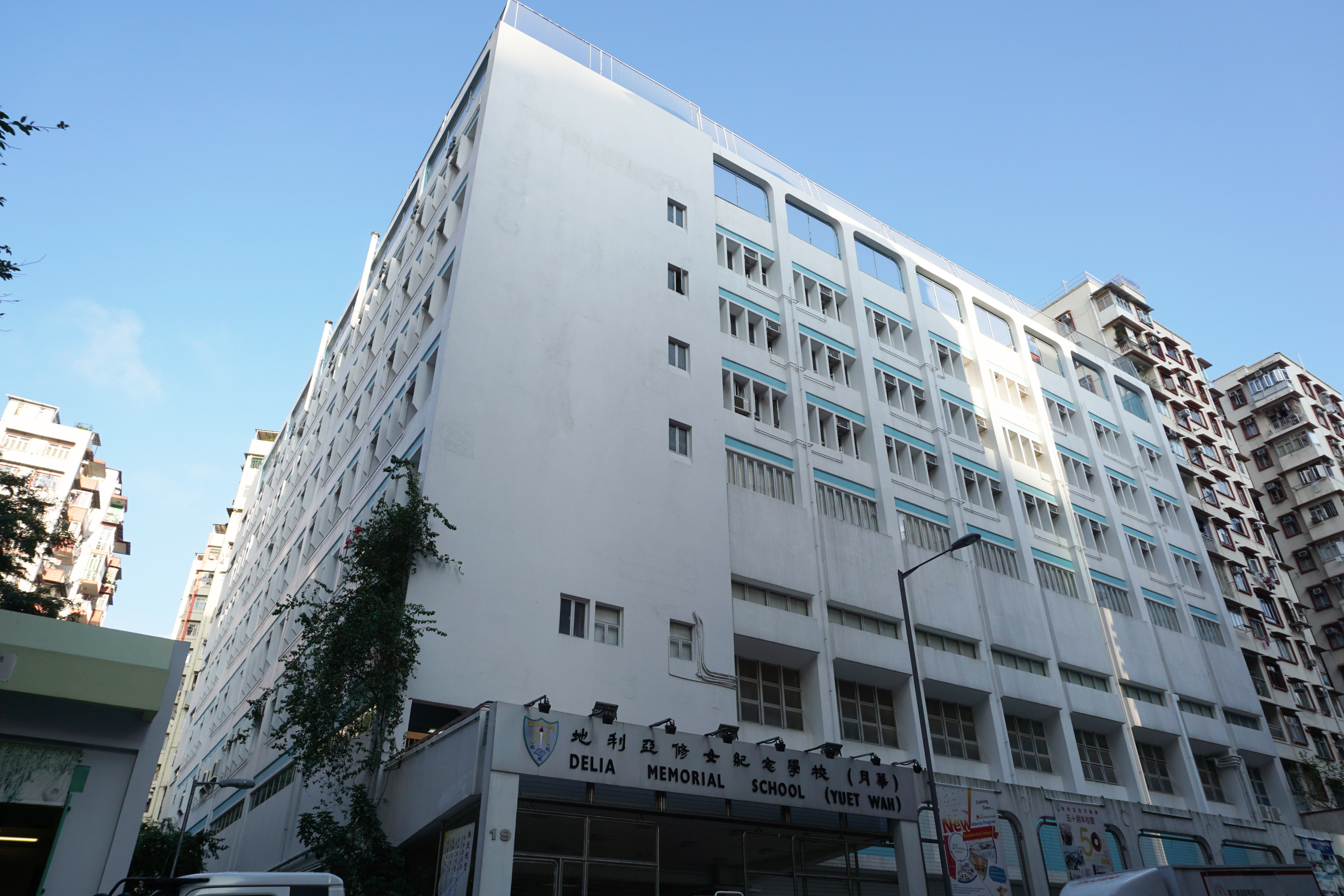 Delia Memorial School (Yuet Wah) in Kwun Tong, Hong Kong.